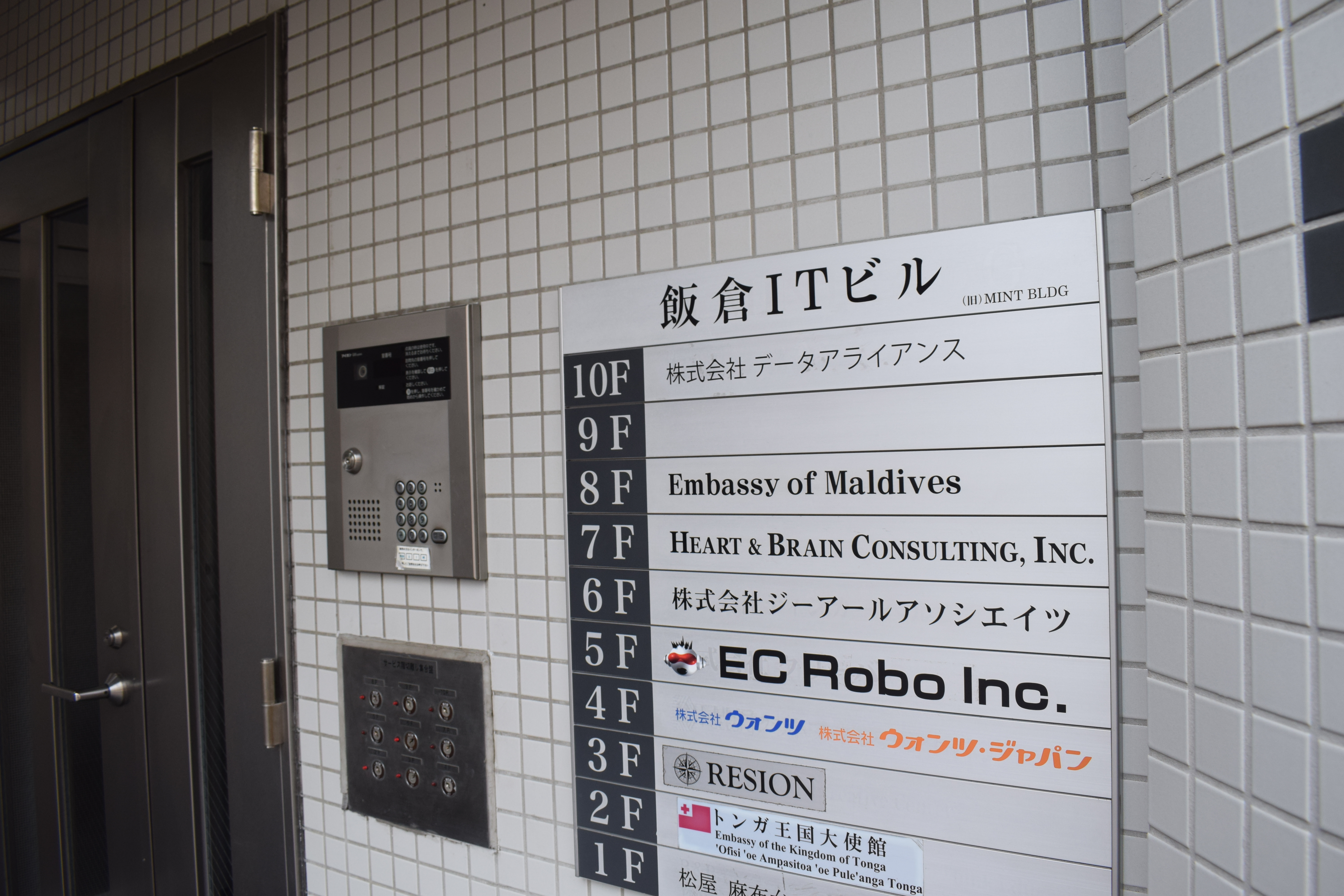 Plate of Iikura IT Building, which hosts the Embassy of Maldives and the Embassy of Tonga in Tokyo, Japan